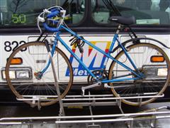 Photo of an old Motobecane Nomade (on the bike rack of a public bus). Photographer is the owner of the bicycle.